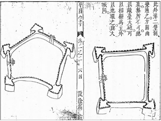 Shouyuquanshu 1638